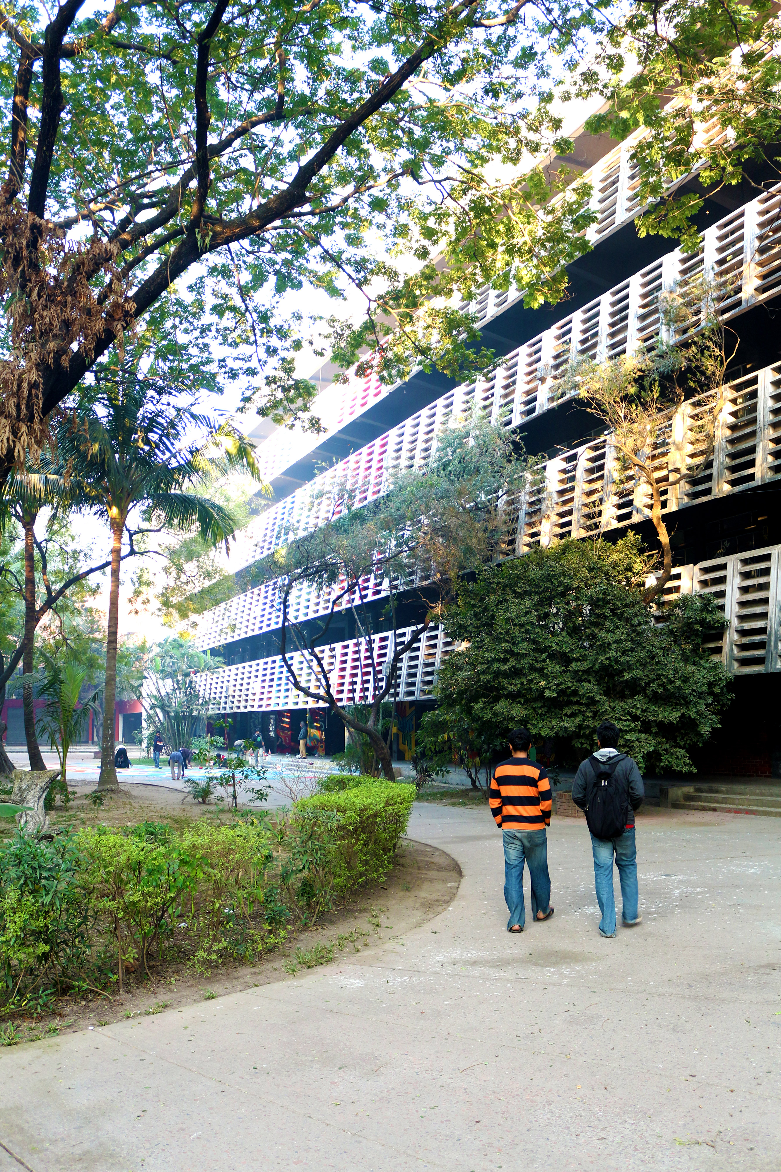 Entry approac of the Dept. of Architecture, BUET